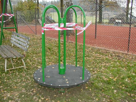 playground of village Zahorcice (Czech Republic, Prachens) in time of its building